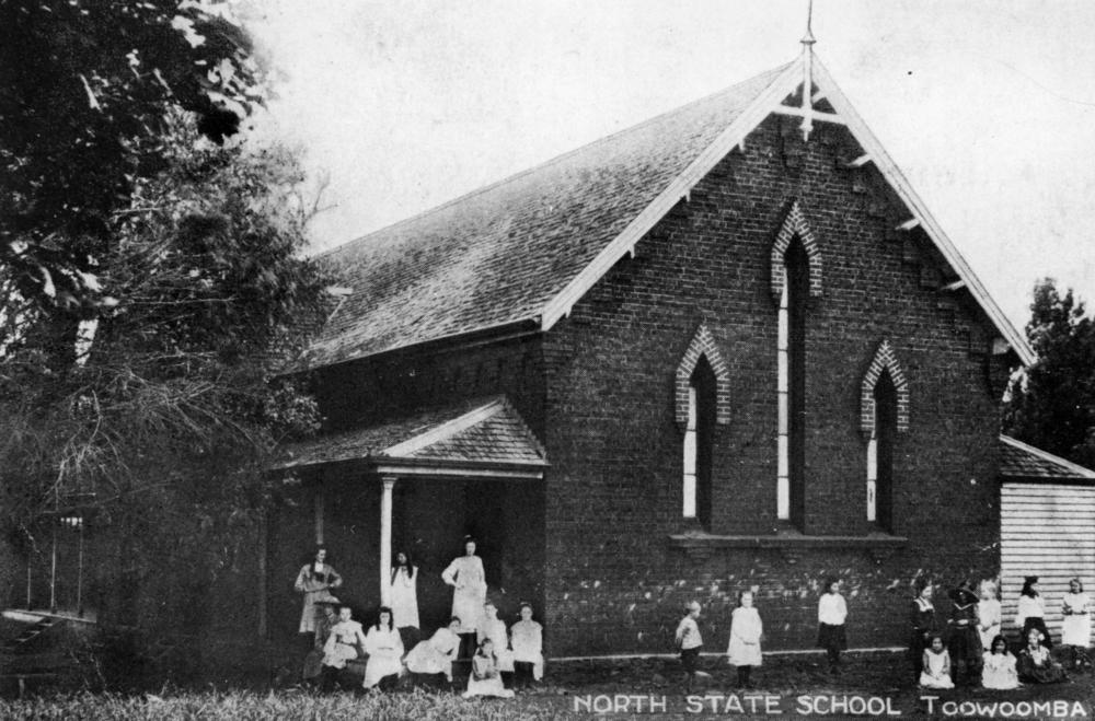 Toowoomba North State School, Queensland, ca. 1907. Girls' and infant school, opened in 1875.